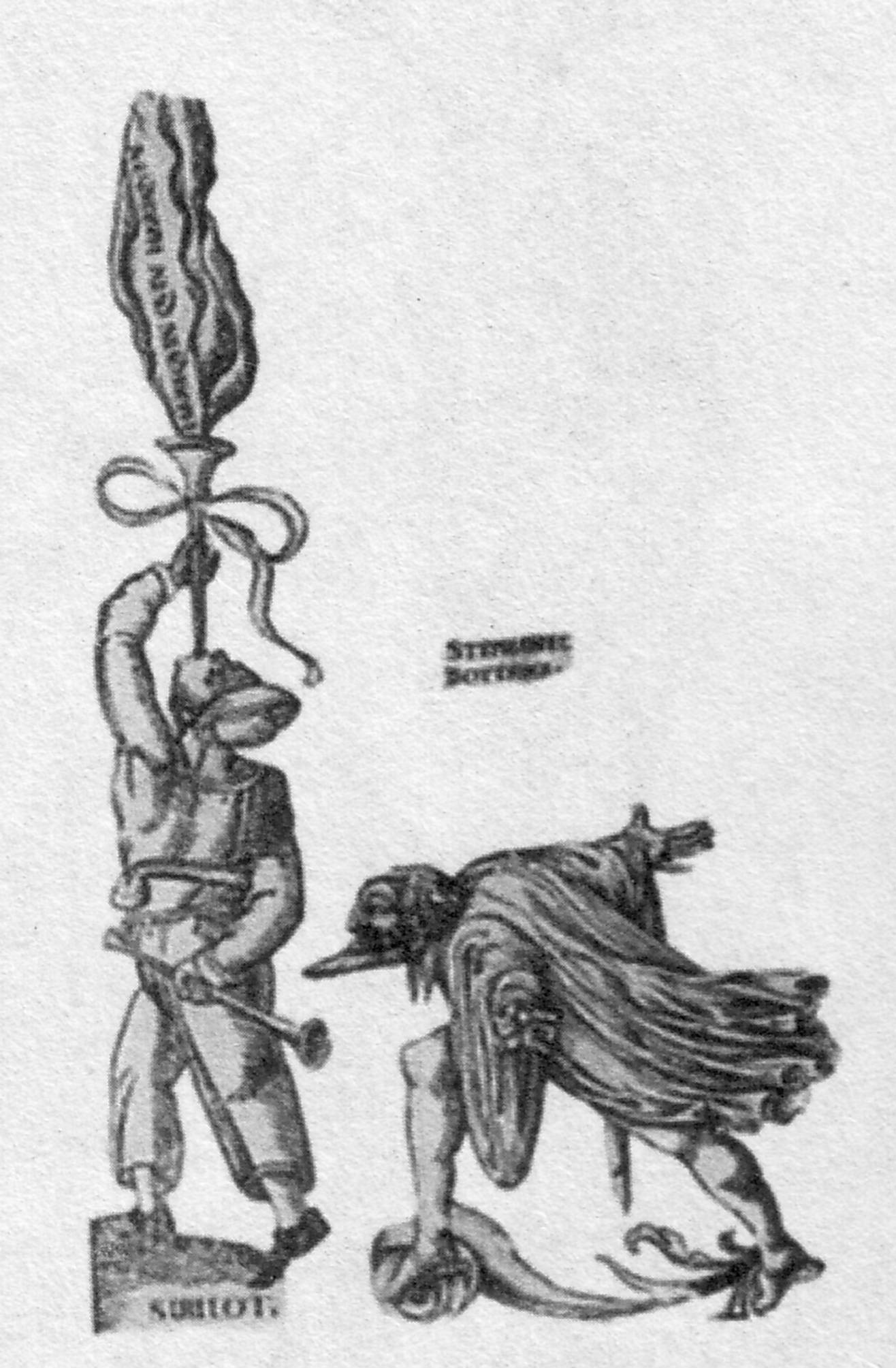 Mask "Stefanello Bottarga" (on the right), according to the engraved number XXXVI that appears in the book "Le Recueil Fossard", a collection of drawings from the 17TH century, collected by the Baron of Tessin and published in Sweden in the 18th century. The originals are in the National Museum in Stockholm.